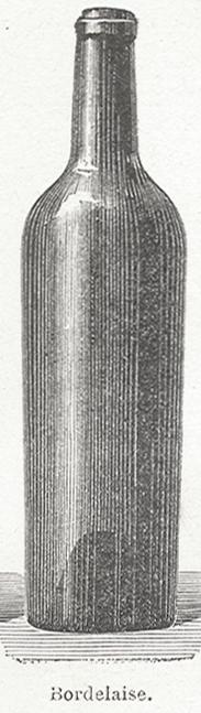 "Bordelaise" bottle, for wines from Bordeaux, France. Detail of a picture from "Dictionnaire encyclopédique de l'épicerie et des industries annexes" by Albert Seigneurie, edited by "L'Épicier" in 1904, on page 117.